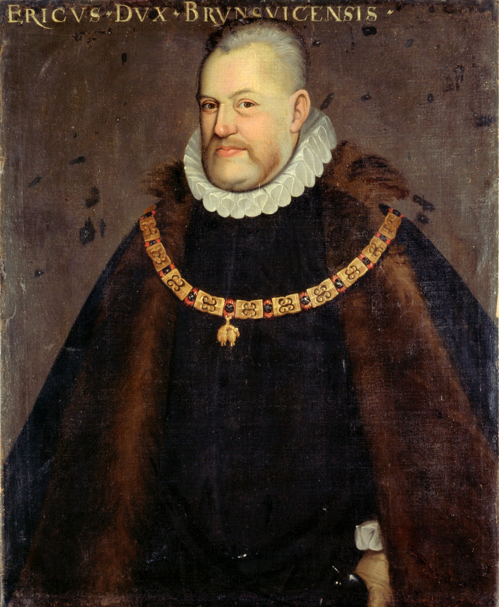 Ericus Dux Brunsvicensis Eric II of Brunswick-Lüneburg, Duke of Calenberg-Göttingen general in the army of Emperor Charles V and King Philip II of Spain. He married in 1545 with Sidonia of Saxony, daughter of Henry V of Saxony. Their marriage remained childless. This anonymous painting from around 1573 is in the collection of the Bayerische Staats-Gemäldesammlung München, inv. No. 3114